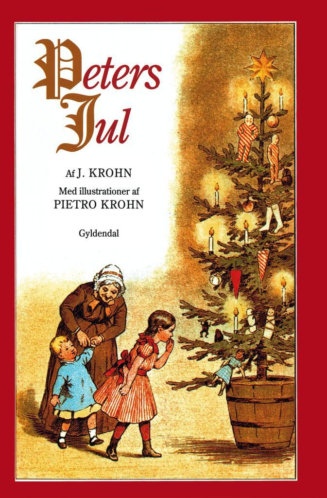 Cover of the Danish book Peters Jul illustrated by the Danish artist Pietro Krohn.